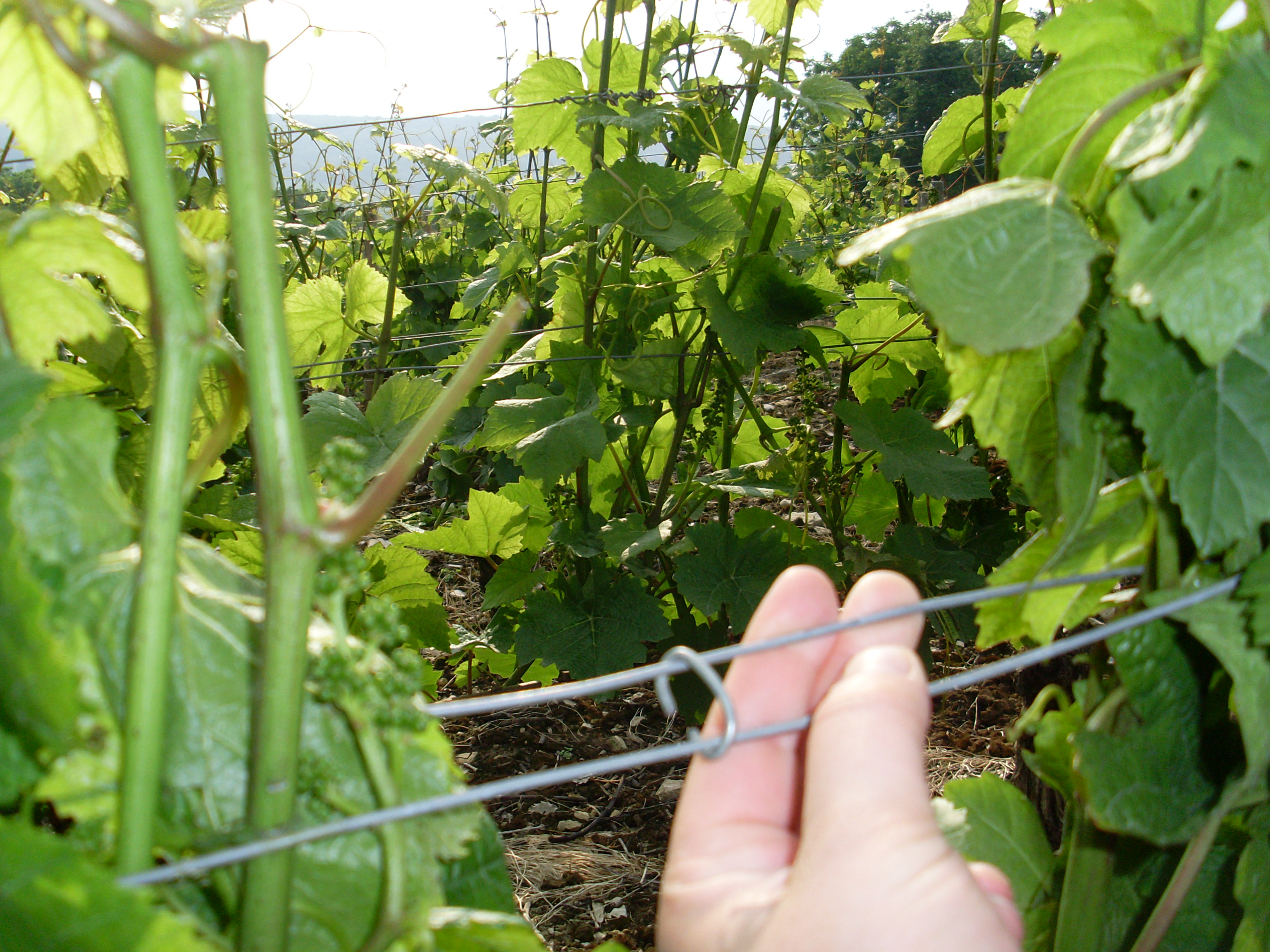 Wire trellising among trained grapevines of Fer